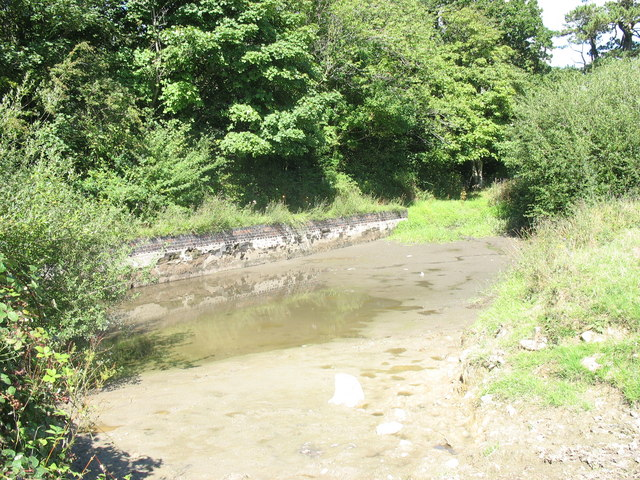 Slurry Pit. The slurry pit is located next to the Welsh Highland Railway line